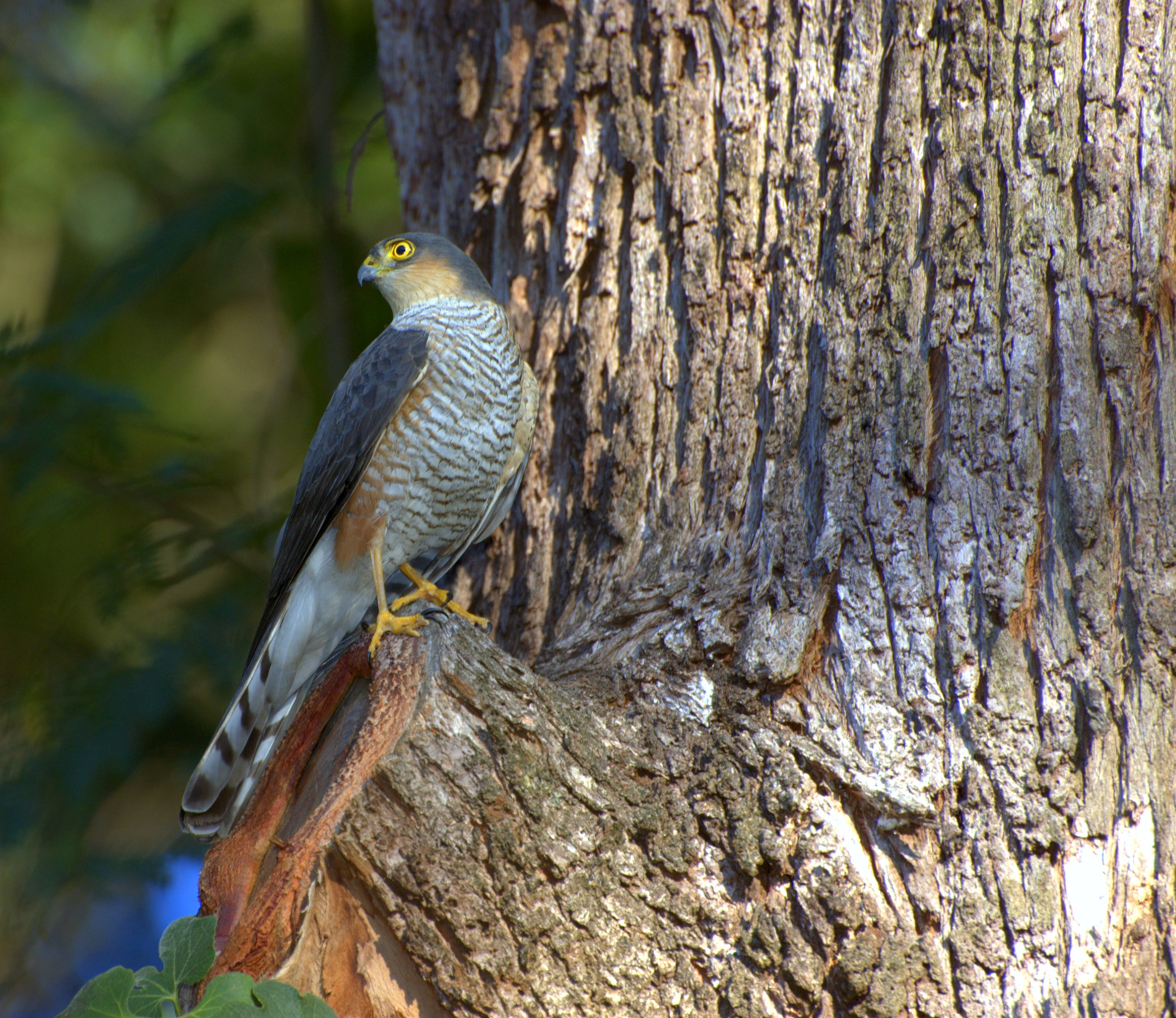 A Rufous-thighed Hawk Accipiter erythronemius. Horto Florestal de São Paulo-SP - Brasil.